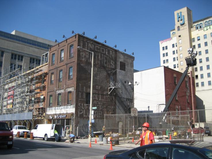 Film Shoot: The Incredible Hulk, Hamilton, Canada.